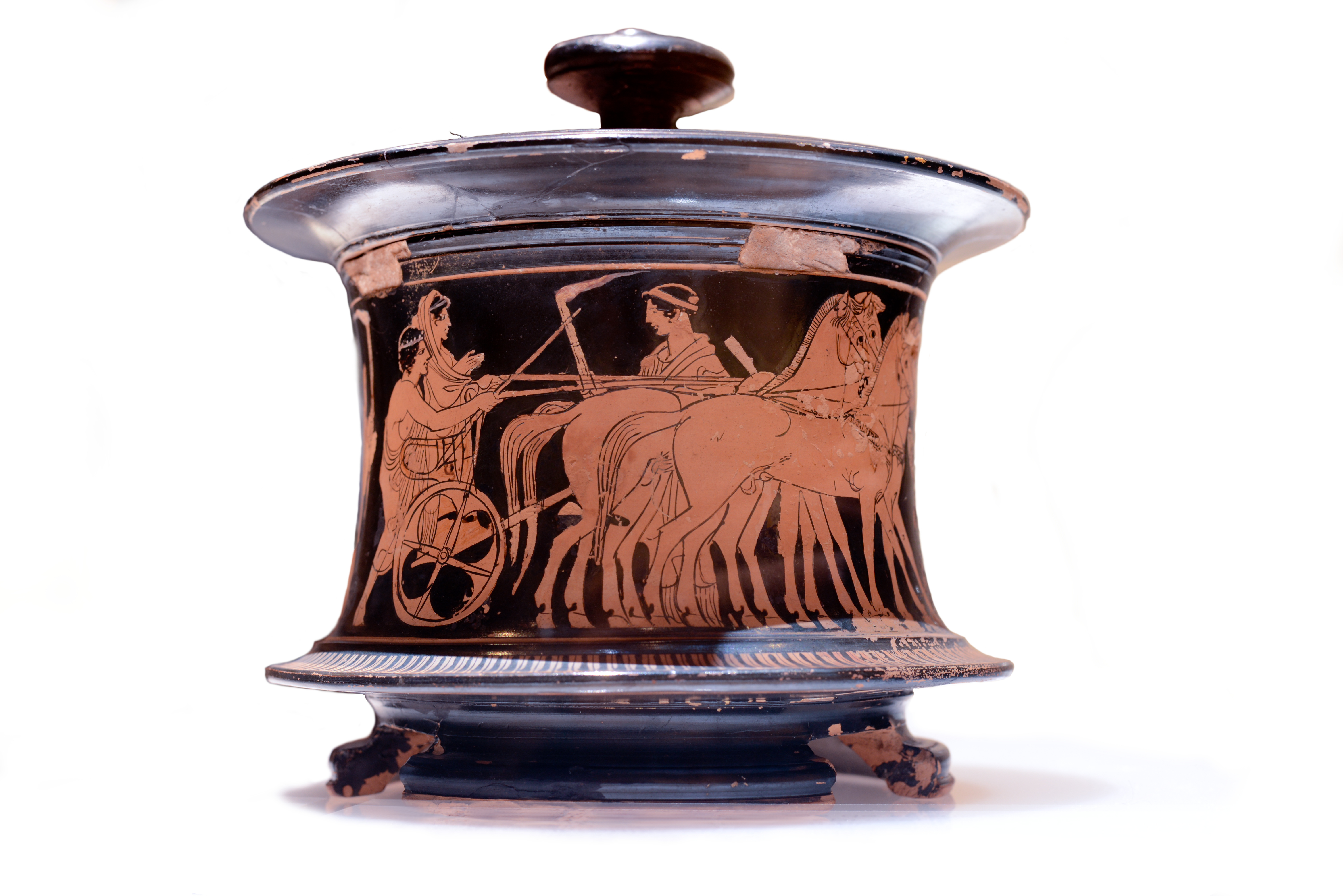 Attic pyxis with a wedding scene (white background)